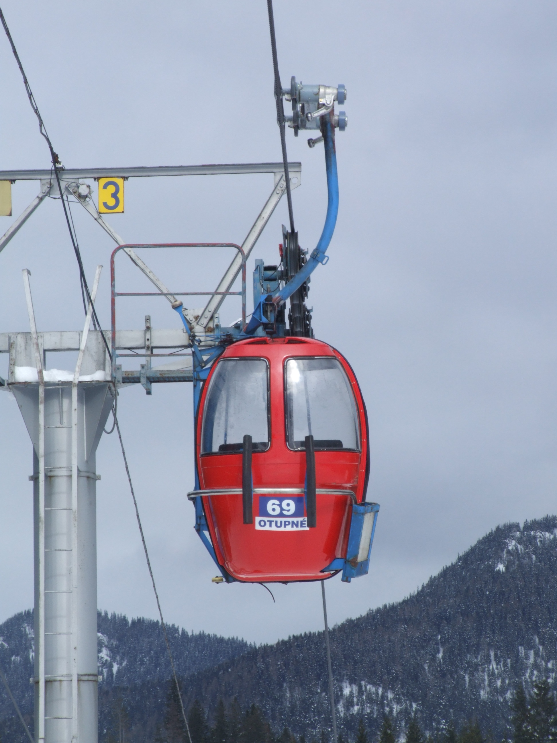 Pillar with car of old gondola lift Otupné–Brhliská (Jasna Ski Resort, Slovakia); this gondola lift dismantled in 2009. From the winter 2009/2010 running the new gondola lift